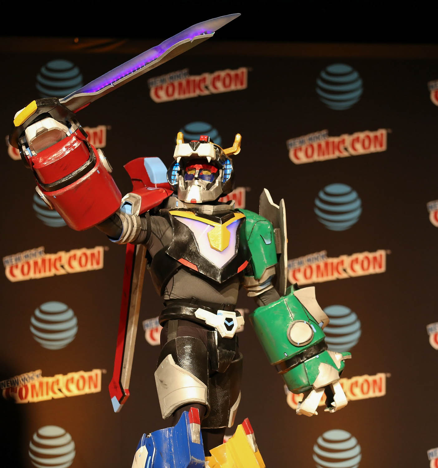 OutLAW2LK cosplaying as Voltron (from Voltron: Legendary Defender) in the Eastern Championships of Cosplay contest at the 2016 New York Comic Con — second-place in the overall competition and first-place winner in the Larger-Than-Life category.